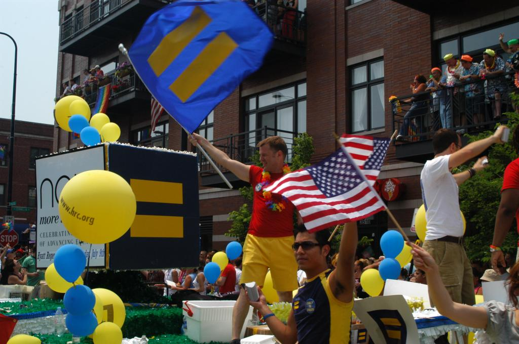 Chicago Pride Parade with Flags of the Human Rights Campaign